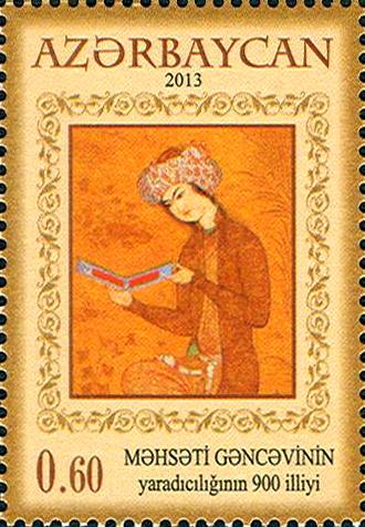 N 1106 - 60 qapik. The stamp dedicated to the 900th Ann. of creativity of Azerbaijan poetess Mahsati Ganjavi.